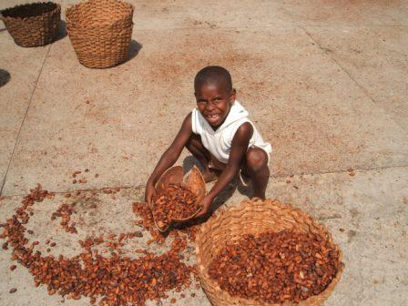 Boy collecting cacao from drying in Chuao, Venezuela.